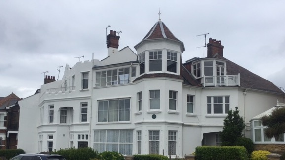 28 Westcliff Parade, Westcliff-on-sea, Southend, Essex, the final residence of Matcham